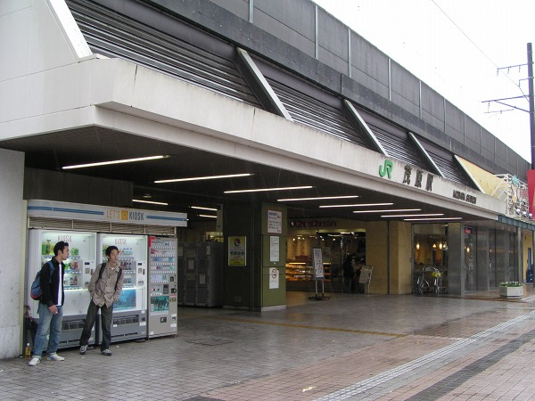 Mobara Station East Exit, Mobara, Chiba, Japan